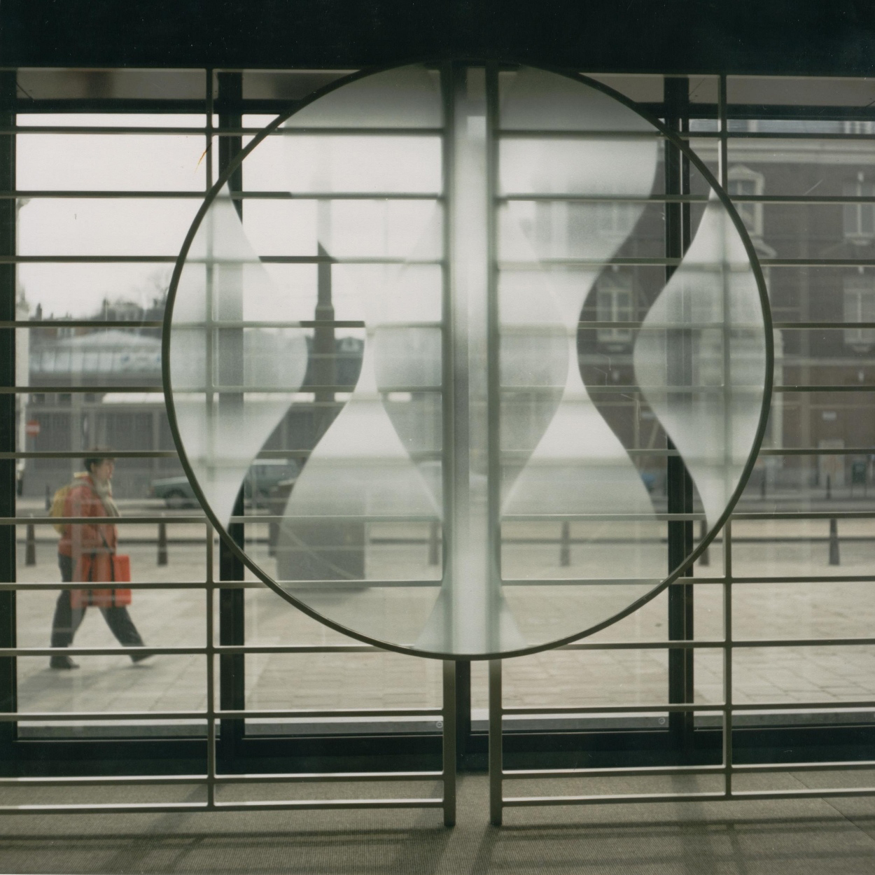 Watermark of the former 25 guilder (paper money). Placed in the Computer Centre of the DNB in Amsterdam. Made by the sculptor Chris Fokma.